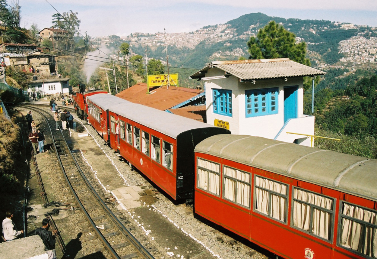 Kalka-Simla Railway. A Special train hauled by Steam Locomotive 520 waits to pass a service train at Taradevi. 13th February 2005 Photographer - A.M.Hurrell Camera - Minolta X700 (35mm film) Modified - Scanned by film developer. File size and definition changed using Adobe Photoshop 5.0LE